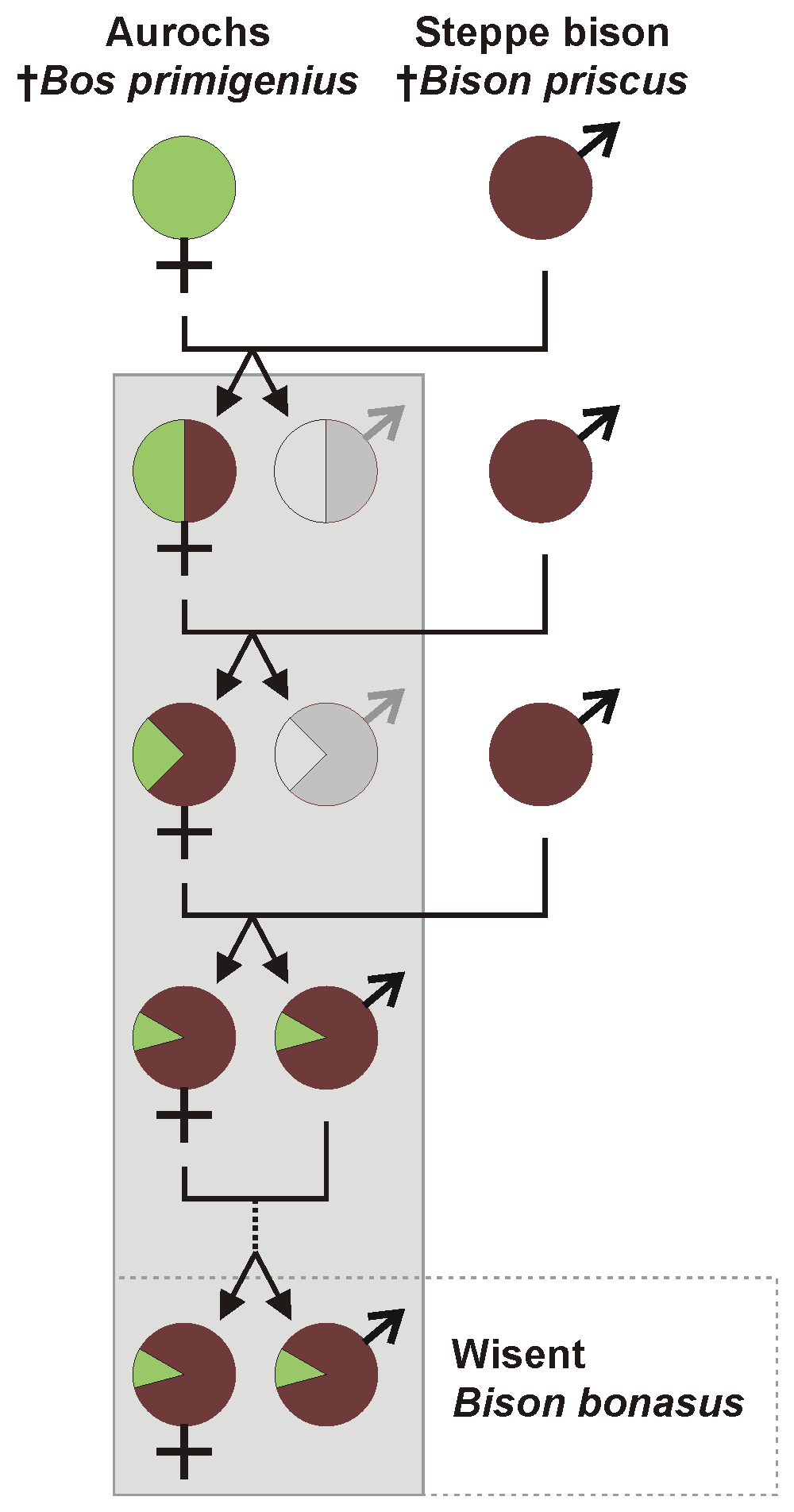 Wisent Bison bonasus is probably the descendant of hybrids originated from the asymmetrical hybridization between male steppe bison †Bison priscus and female aurochs †Bos primigenius.